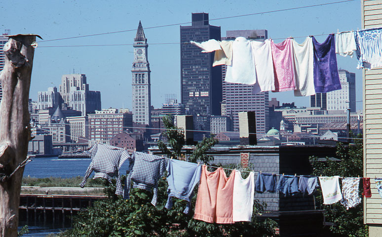 Title: Boston skyline, from East Boston Creator: Peter H. Dreyer Date: 1975 August Source: Collection 9800.007, Peter H. Dreyer slide collection File name: 9800007_168 Photographer: Peter H. Dreyer Rights: Public Domain, Please credit Peter H. Dreyer Citation: Peter H. Dreyer slide collection, Collection #9800.007, City of Boston Archives, Boston